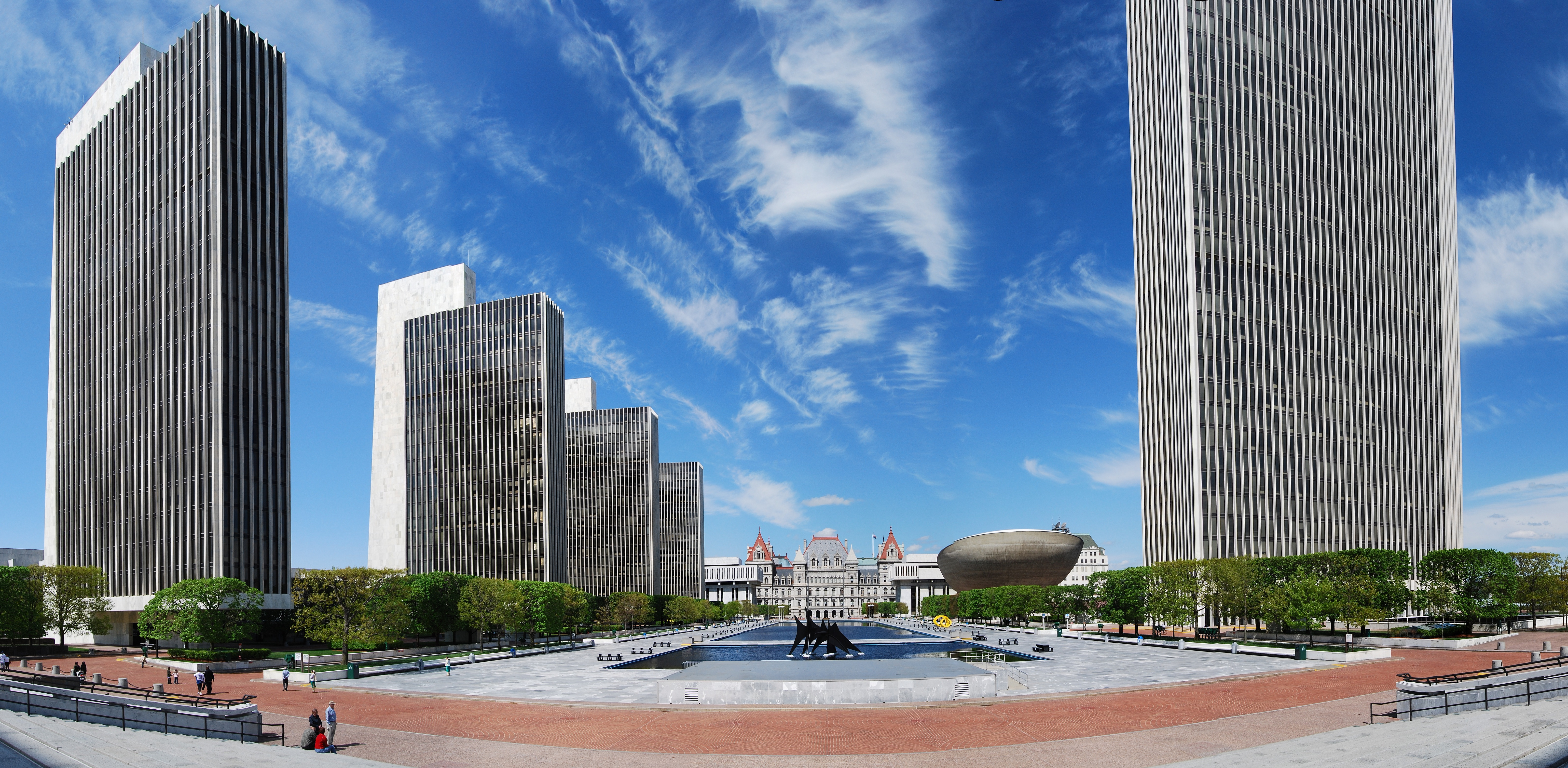 Empire State Plaza in Albany, New York. At center is the New York State Capitol.